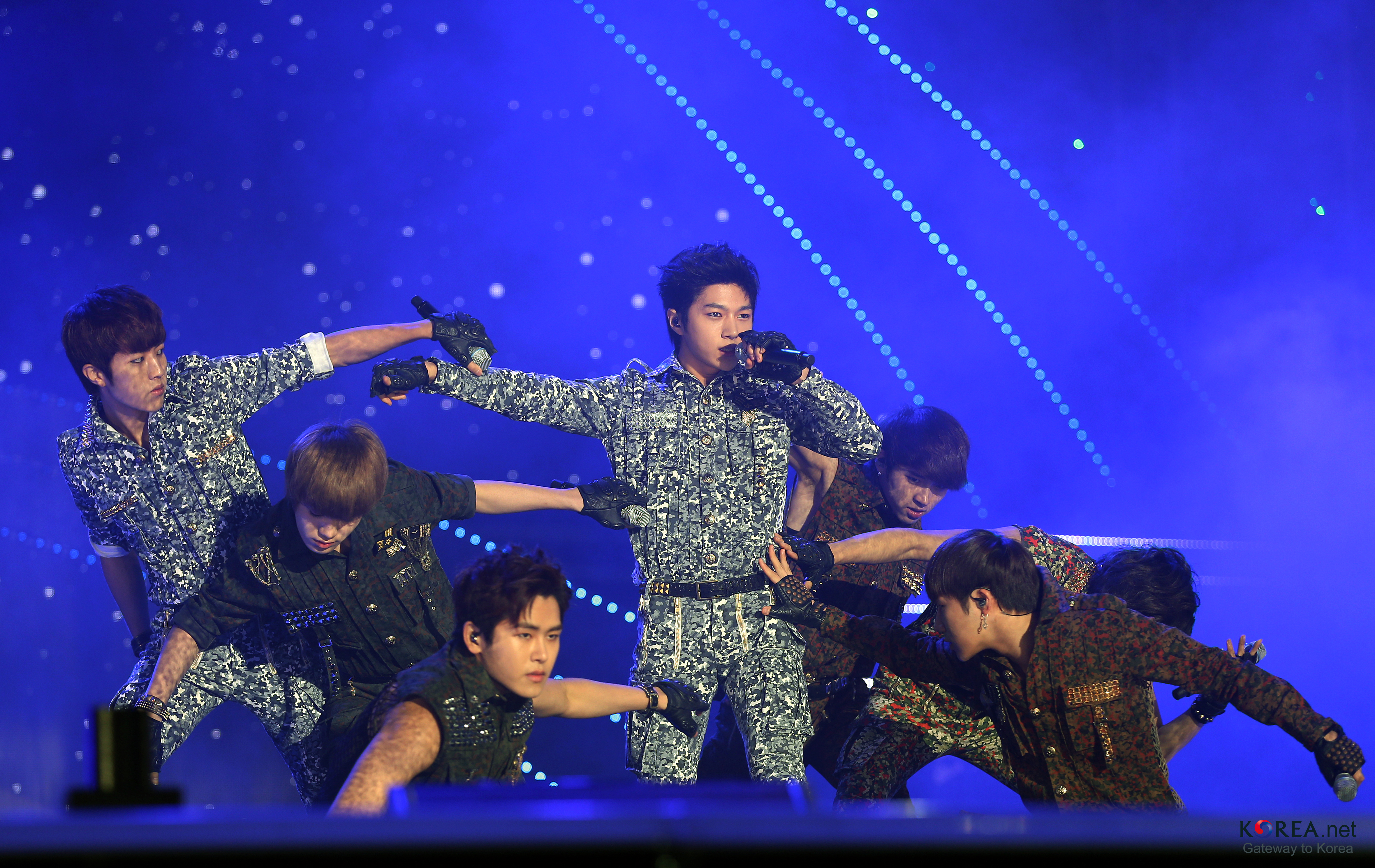 2013 K-POP World Festival in Changwon October 20, 2013 Changwon-si, Gyengsangnam-do Related Articles Cheong Wa Dae K-Pop World Festival unites global fans -English K-Pop World Festival unites global fans -中文 “2013 K-POP世界庆典” 用K-POP连结全世界 -Vietnamese Cả thế giới hội tụ tại “K-pop World Festival 2013” -日本語 「Kポップワールド・フェスティバル2013」、Kポップで世界が一つに -Deutsch „K-Pop World Festival” bringt internationale Fans zusammen -Francais Un festival mondial de la K-Pop 2013 de haute volée -Russian K-Pop World Festival объединяет фанатов со всего мира -Arabic المهرجان العالمي للبوب الكوري يوحد الجماهي Ministry of Culture, Sports and Tourism Korean Culture and Information Service ( Jeon Han 2013 제3회 K-POP 월드페스티벌 2013-10-20 경상남도, 창원시 문화체육관광부 해외문화홍보원 코리아넷 전한